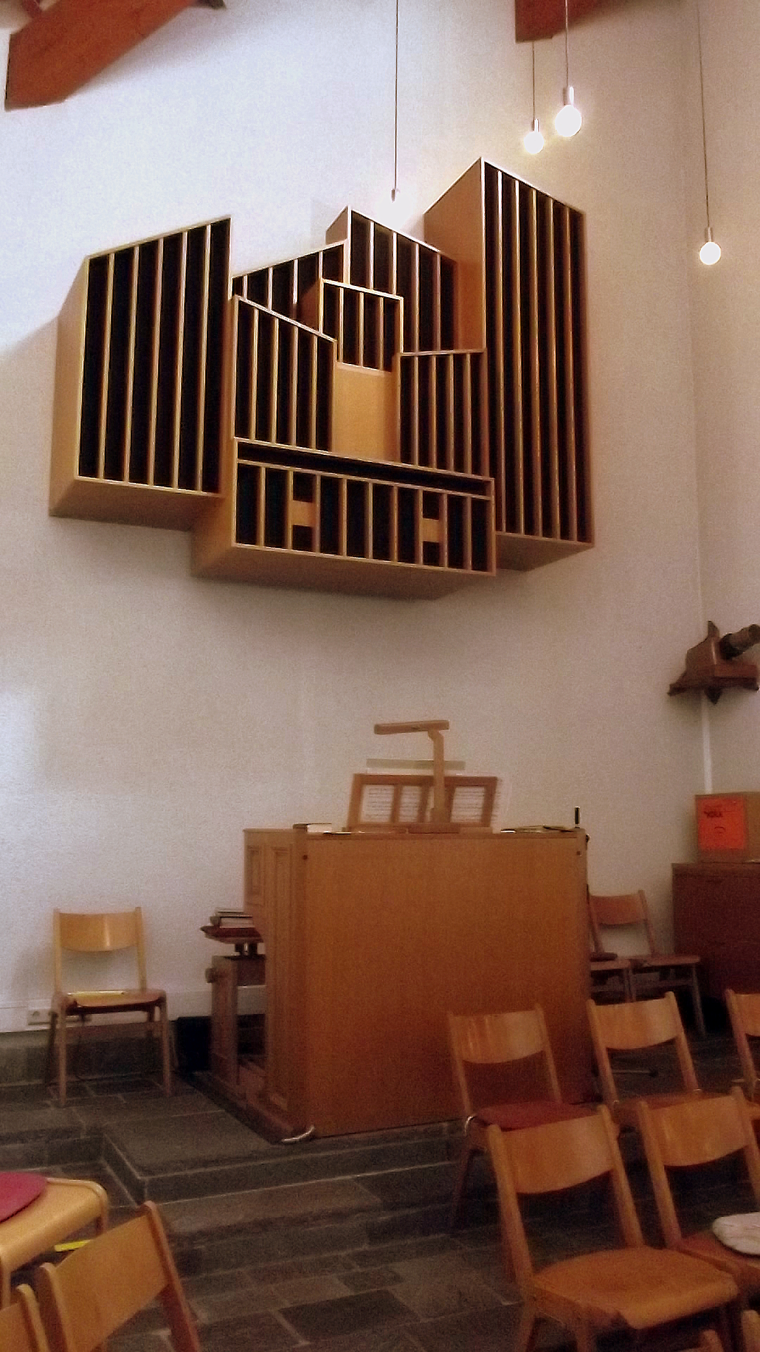 Interior of the roman catholic church in Steinrausch, Saarland, Germany